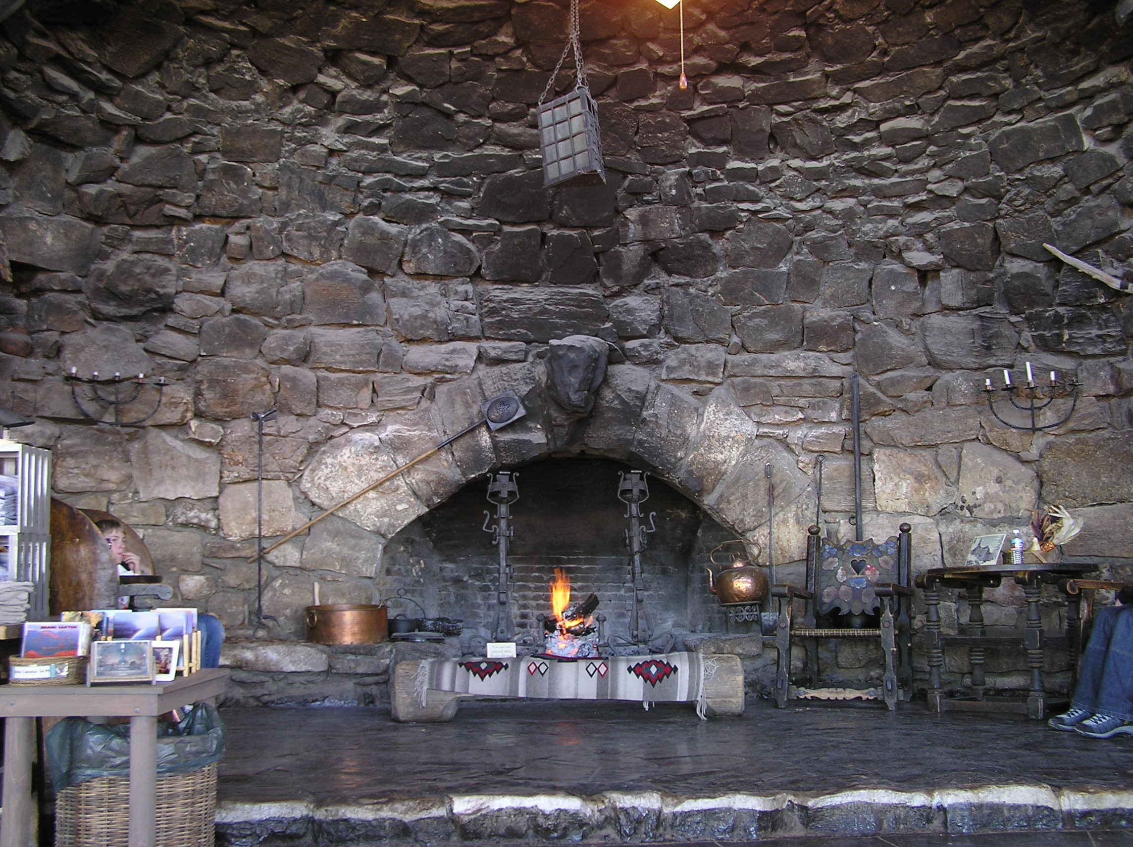 Fireplace inside historic Hermit's Rest gift shop, Grand Canyon National Park, Arizona, United States. Hermit's Rest is listed on the US National Register of Historic Places and is a component of the Mary Jane Colter Buildings, a designated National Historic Landmark.